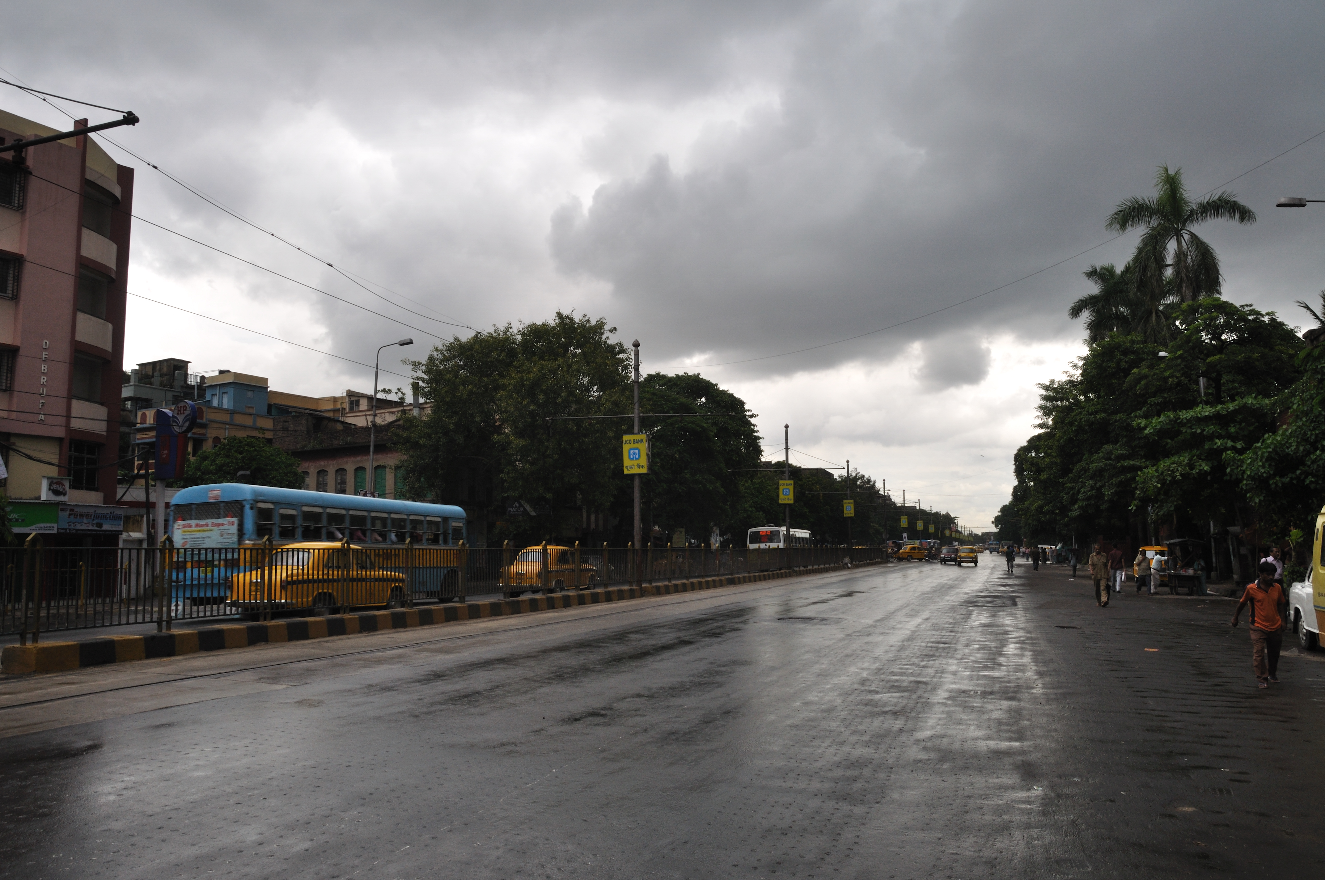 APC Road emerges from the Famous Shyambazar Five-Point Crossing [Paanch mathar more]. It then passes through Khanna Crossing, Beadon Street crossing, Manicktala Crossing , Rajabazar Crossing , College Street crossing, MG Road Crossing, Sealdah Station and Vidyapati Flyover in Kolkata.